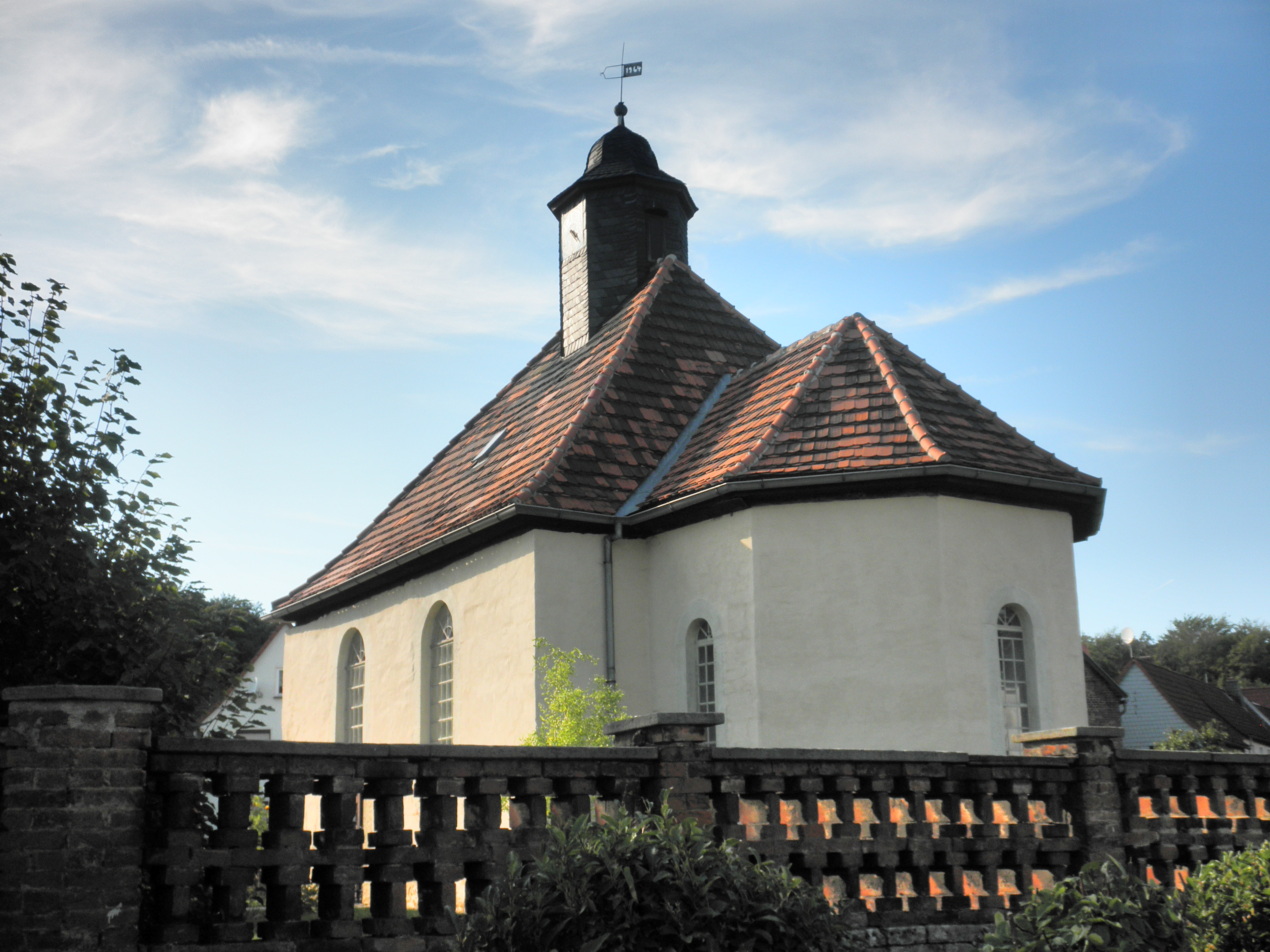 Church in Mertendorf (Thüringen) in Thuringia